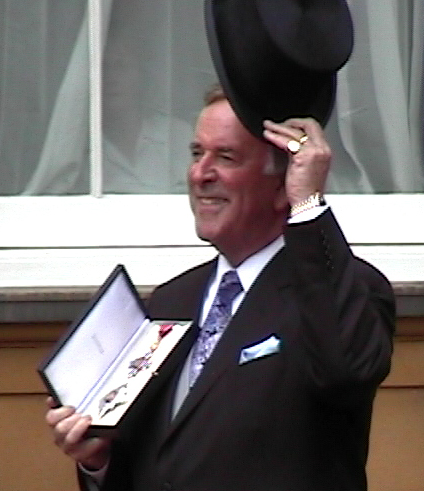 Terry Wogan receiving his knighthood at an Investiture on 2005-12-06.